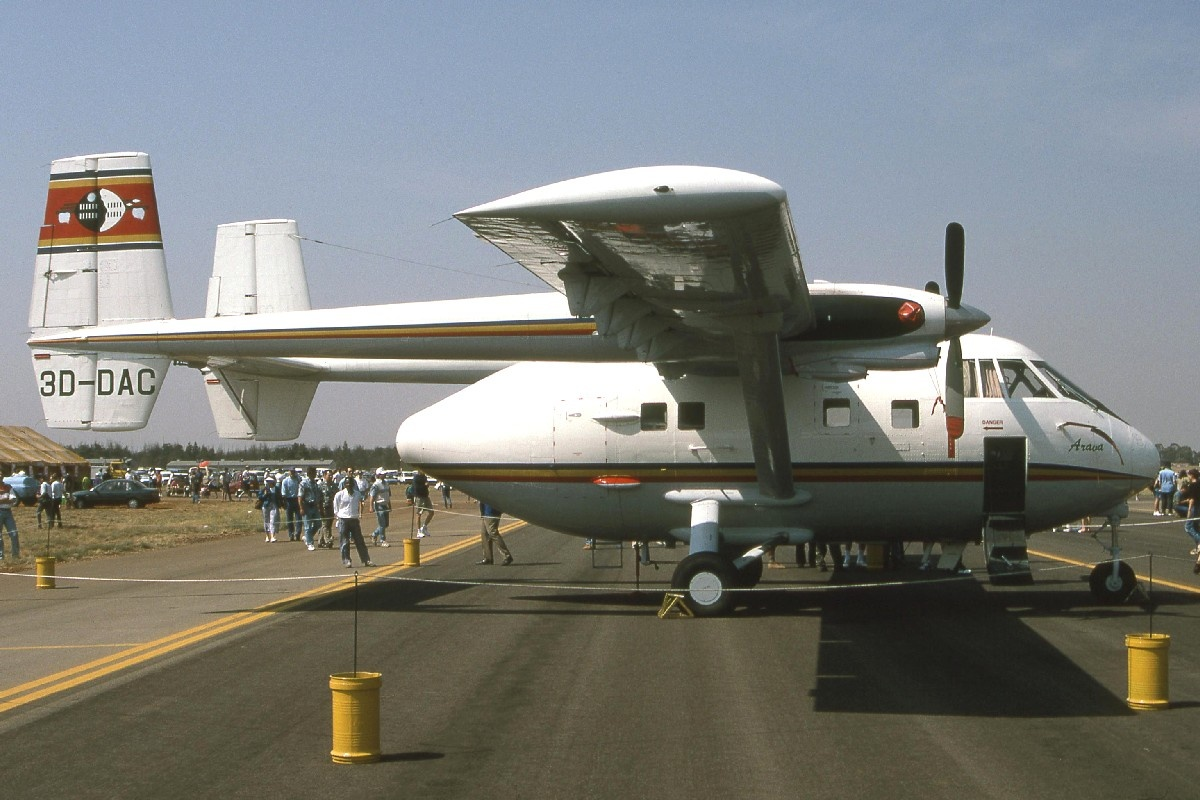 Umbutfo Swaziland Defence Force Air Wing IAI Arava at Pretoria Waterkloof. This airframe was written off in a take-off incident in 2004.